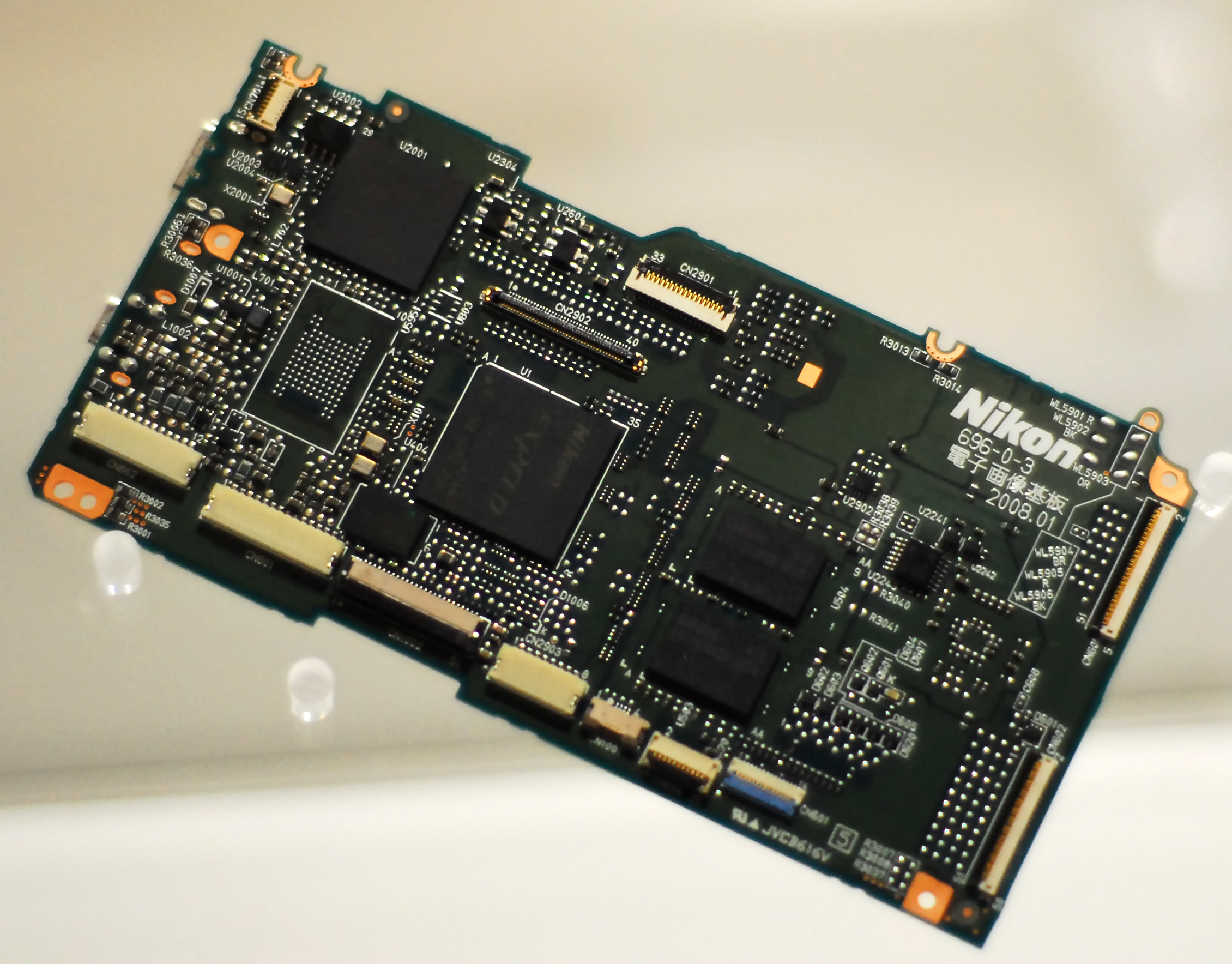 Nikon D700 Motherboard: This MB is made in Japan and by Nikon.